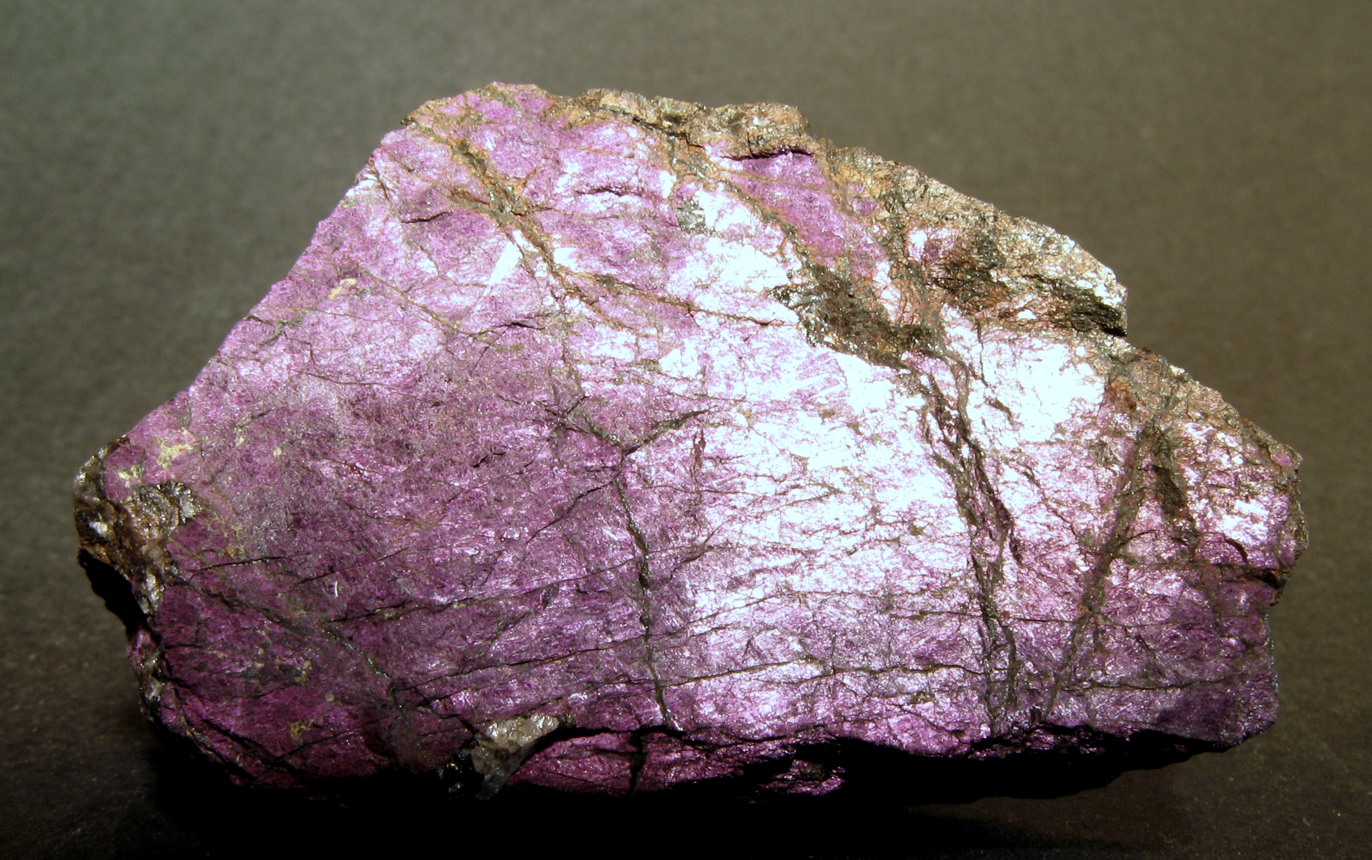 Purpurite (Size: 4.2 x 2.6 cm) Locality: Sandanab, Namibia